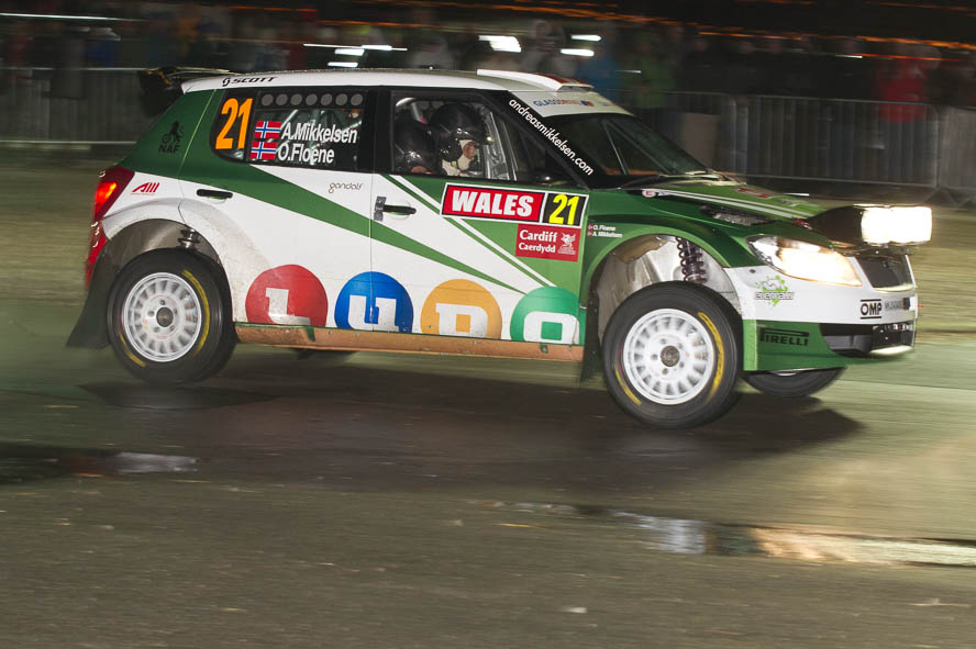 Wales Rally GB 2010 Andreas Mikkelsen,Czech Ford National Team,Ola Floene,Rally,Rallye,S2000,Skoda Fabia,WRC